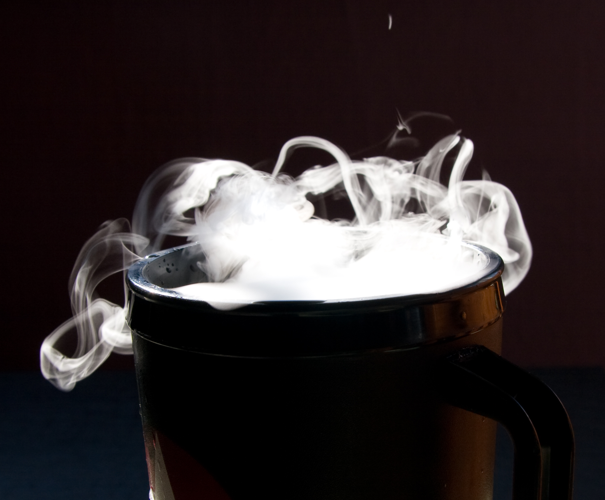 My organic food delivery sometimes used dry ice to cool perishables. So I found myself with a little bag of dry ice on Thursday. What do do with it? Boil it of course!